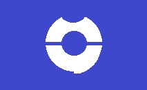 Flag of Miyake Nara